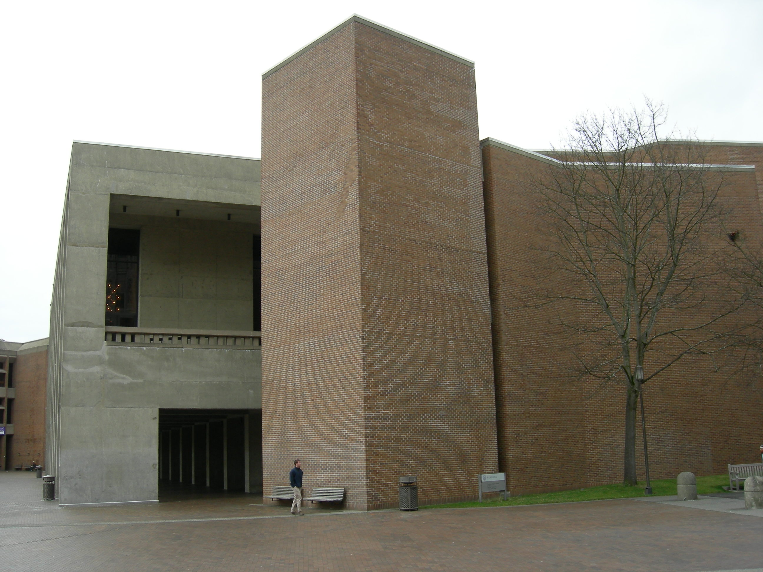 Kane Hall, University of Washington. View from in front of Suzzallo Library.